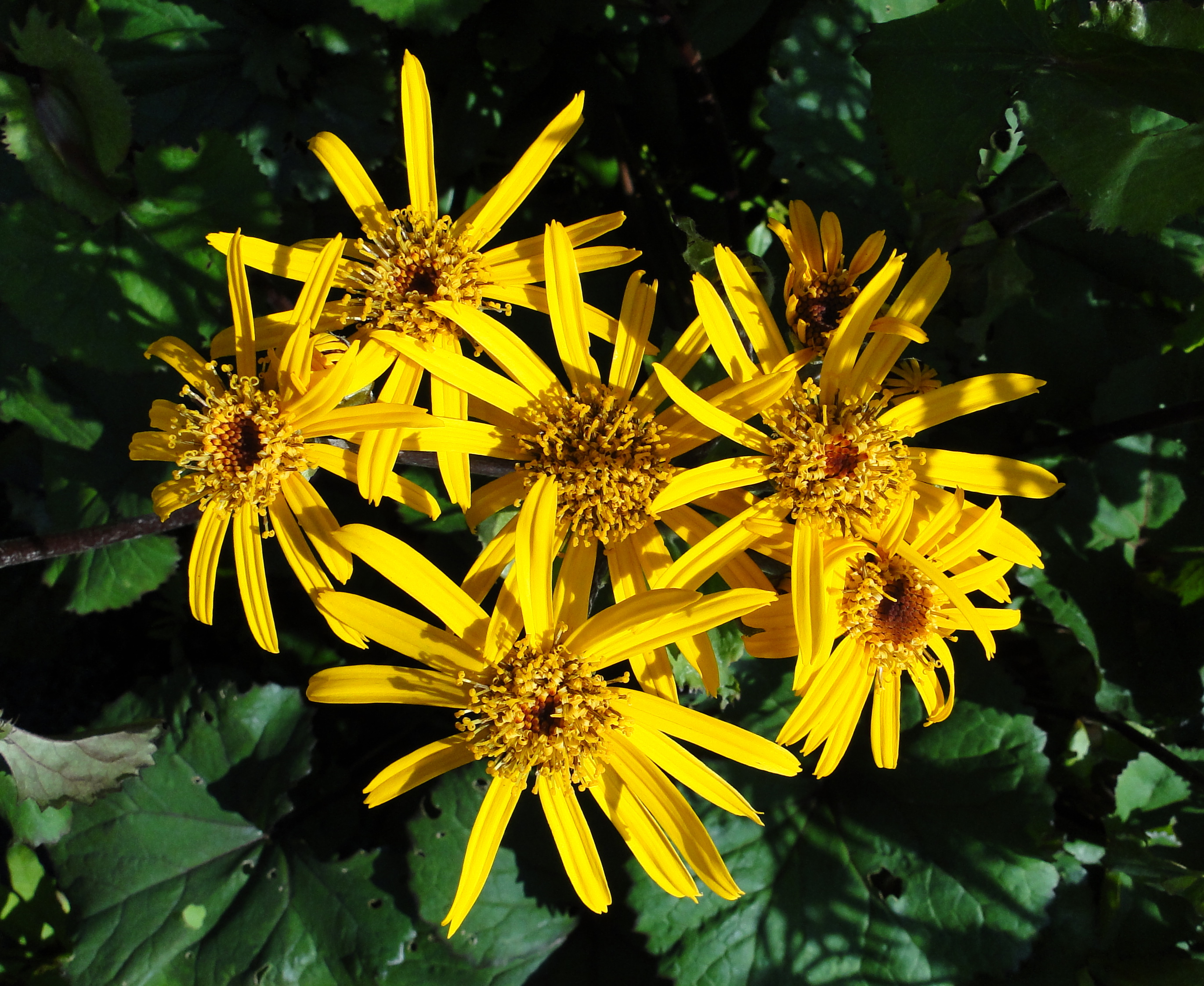 Flowers of Summer ragwort